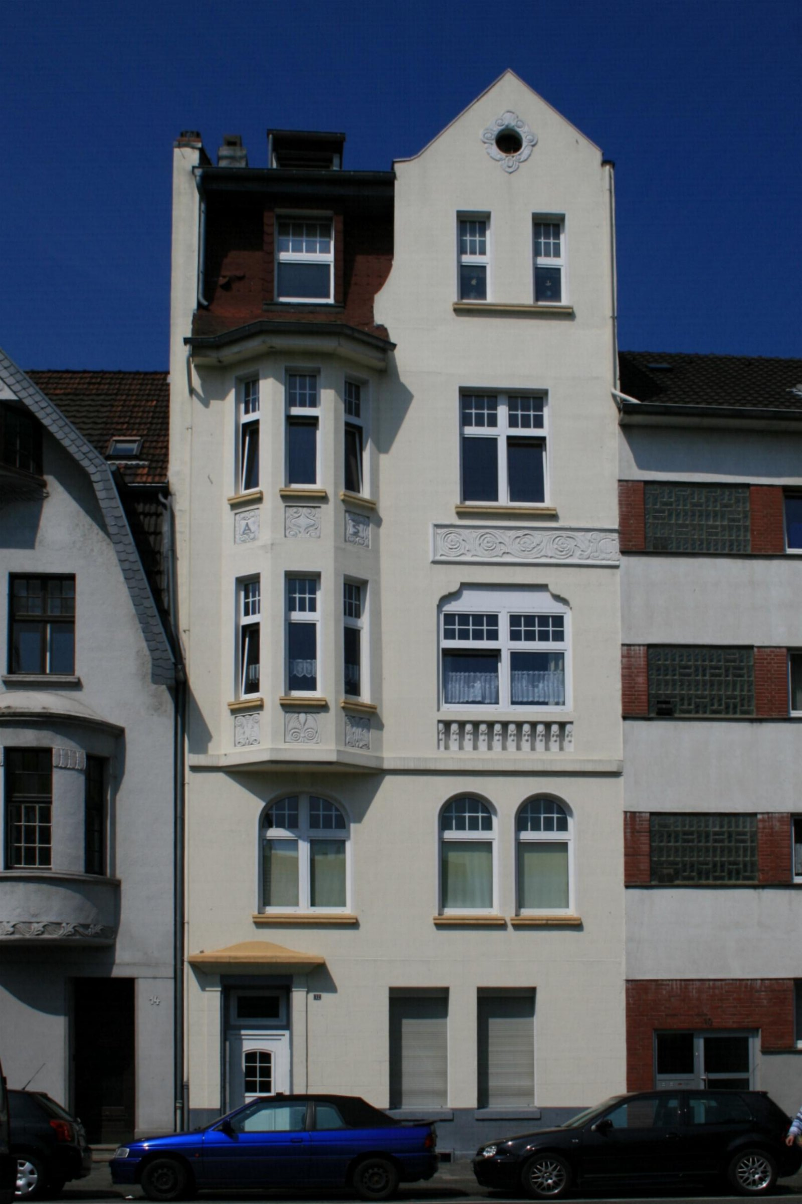 Cultural heritage monument No. R 034 in Mönchengladbach